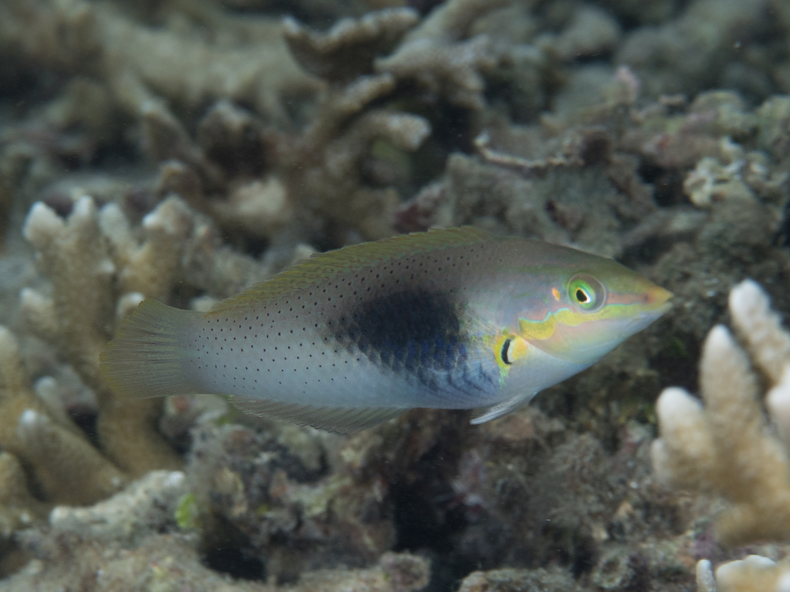 Lembeh, Indonesia - Pastel-green wrasse (Halichoeres chloropterus)